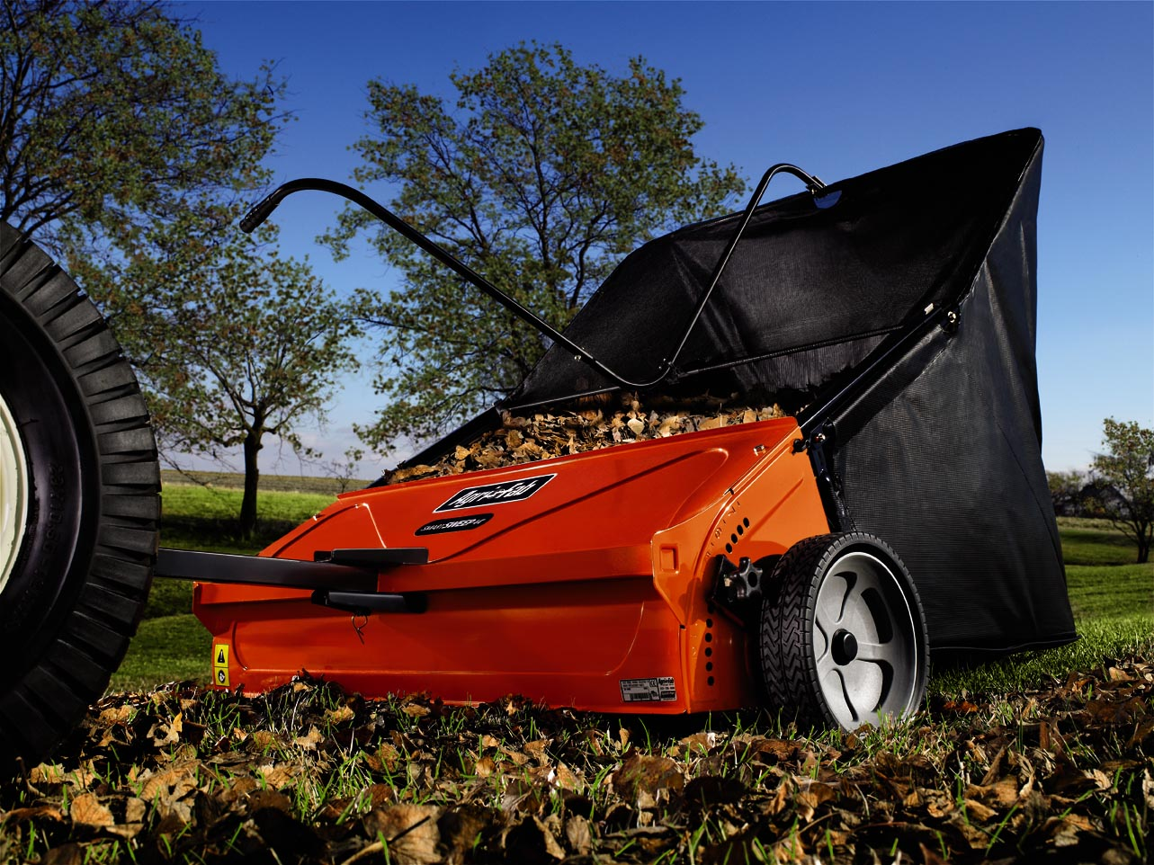 Agri-Fab lawn sweeper